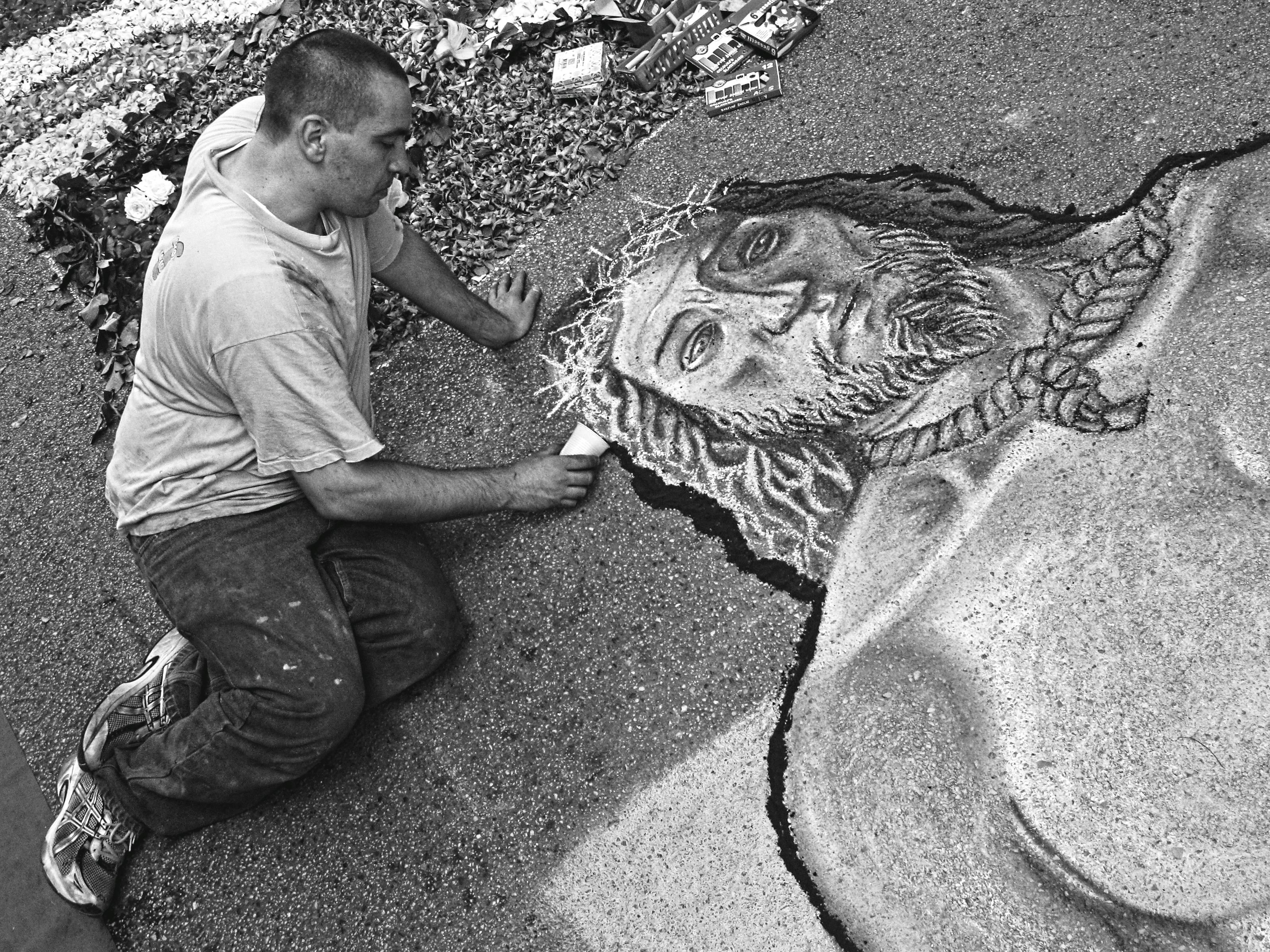 Infiorata di Sant'Antonio - Rieti (Lazio, Italy)